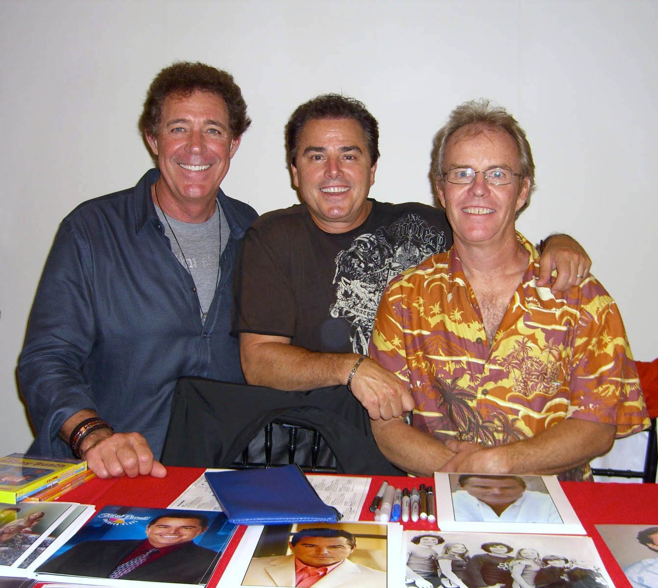 Brady Bunch stars Barry Williams, Christopher Knight and Mike Lookinland at the Big Apple Convention in Manhattan, October 1, 2010. Photo by Luigi Novi. This photo may be used, modified and published for any purpose, only if a easily visible credit to the photographer is placed near the photo in each instance in which it is used. (See licensing information below.) Publication of this photo without this proper attribution constitutes copyright infringement. For more information on my photos, you can contact me here.